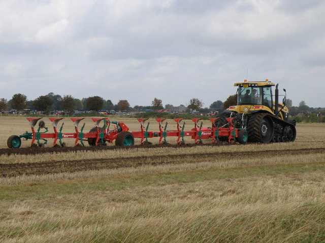 The newest kit, near to Soham, Cambridgeshire, Great Britain. Seen on the site of the National Ploughing Championships at Qua Fen, Soham. This Agco Challenger crawler tractor and a 10 furrow Kverneland plough. The Kverneland brand is popular with ploughmen and several 2 furrow models were being used to great effect on the competition plots.